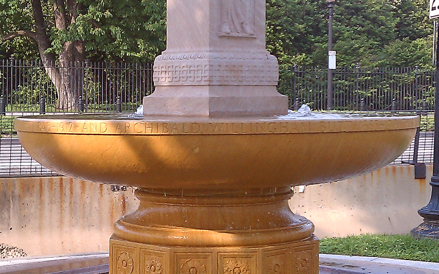 Detail of the inscription on the Butt-Millet Memorial Fountain near The Ellipse (the southern portion of the President's Park) in Washington, D.C., in the United States. This memorial fountain was erected in October 1912 in memory of Major Archibald Butt (military aide to President William Howard Taft) and Francis Davis Millet (painter). Both men died during the sinking of the RMS Titanic in April 1912.